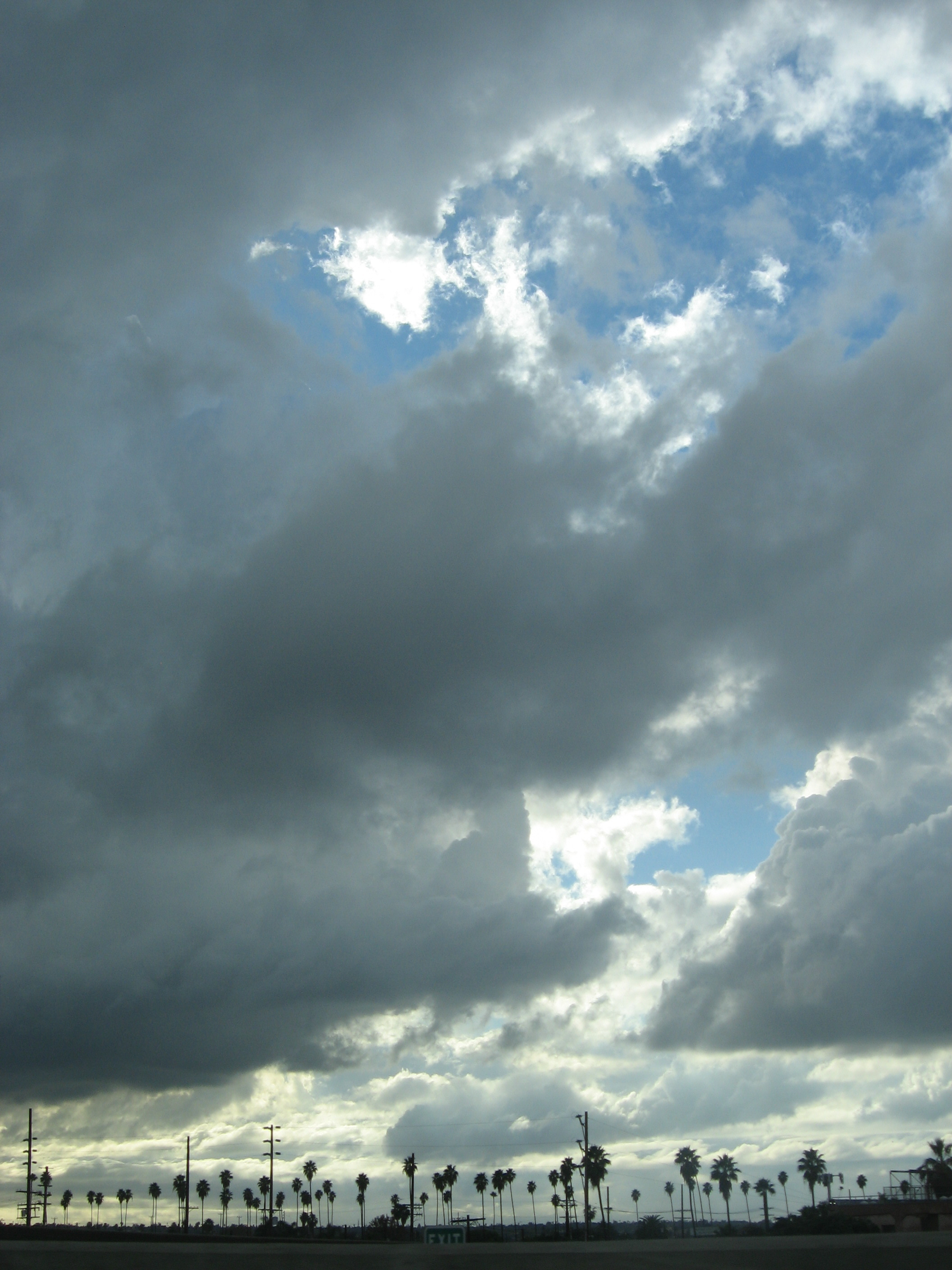 Rain clouds over Washingtonia filifera palm trees in South Los Angeles, seen from the southbound 110 Freeway.